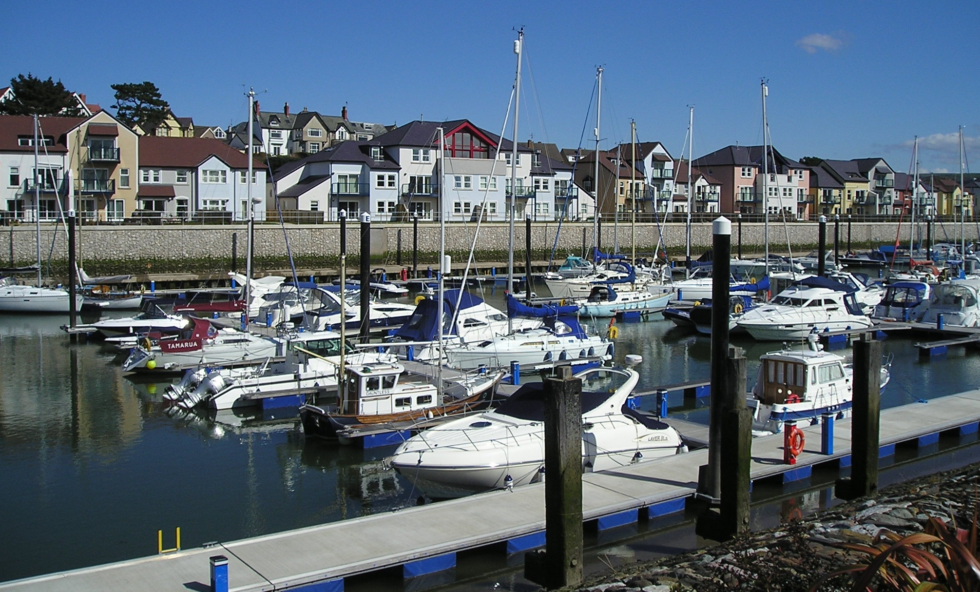 Photograph by me Noel Walley